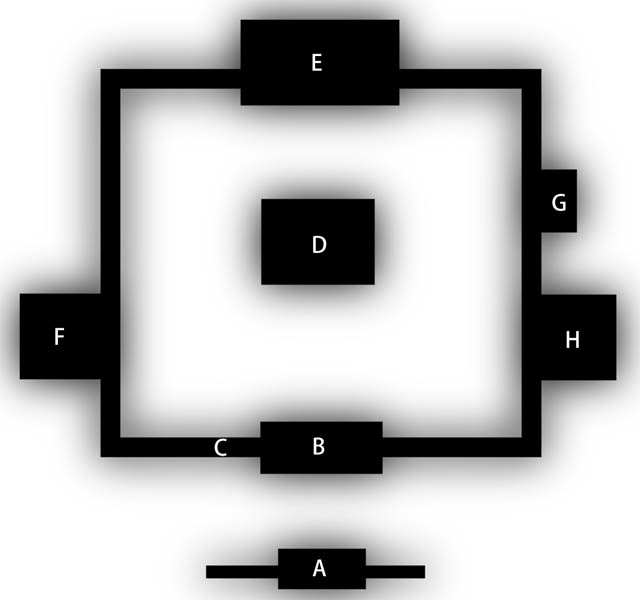 Plan of Zuiryuji Temple. 瑞龍寺伽藍配置図A:総門 B:山門 C:回廊 D:仏殿 E:法堂 F:禅堂 G:鐘楼 H:大庫裏